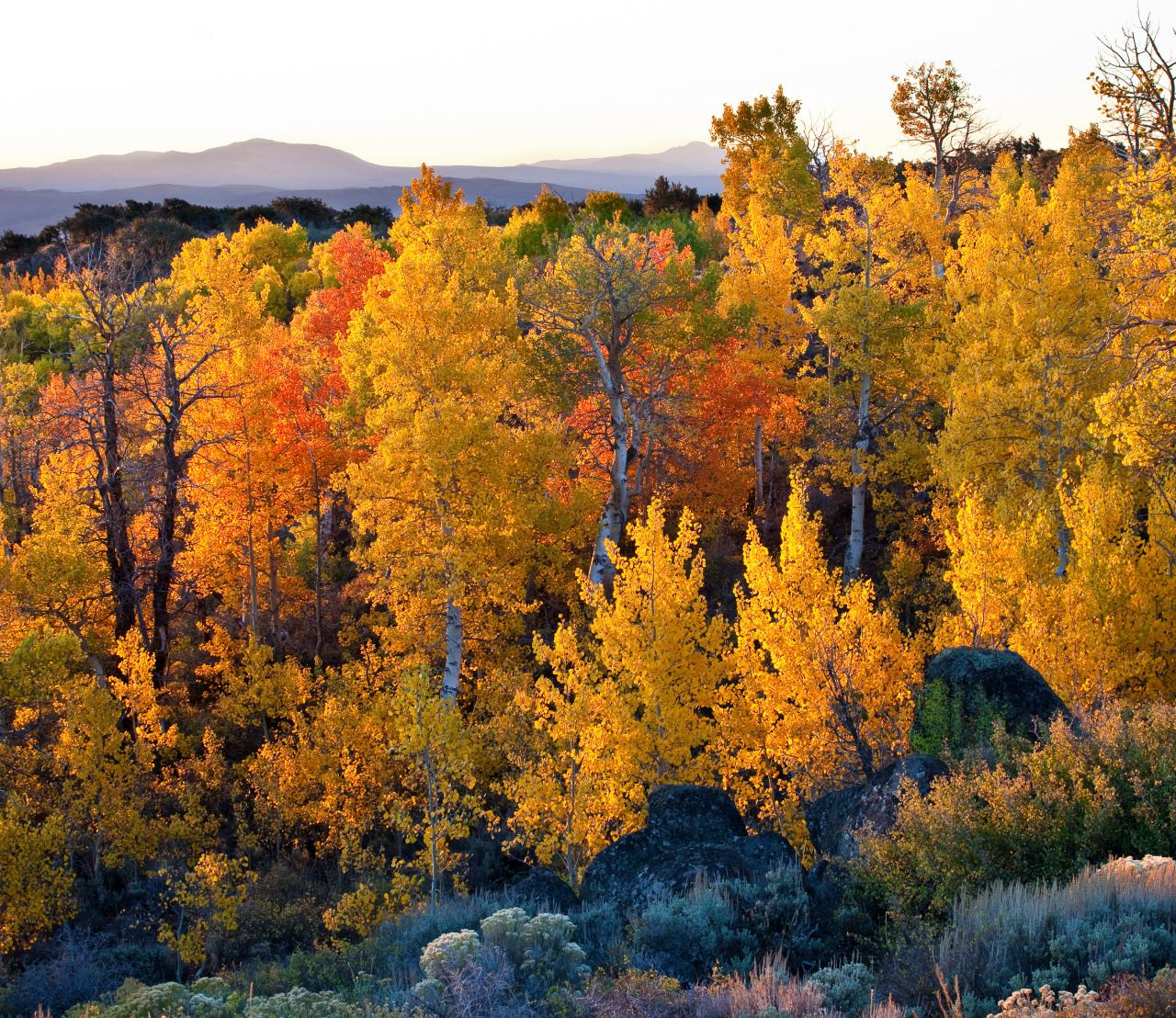 The Wall Canyon Wilderness Study Area in Nevada is located 30 miles southeast of Cedarville, California. Small stands of aspens here in the higher elevations of Northeast California and Northwest Nevada usually reach peak color in mid-October. Photo by Bob Wick, BLM